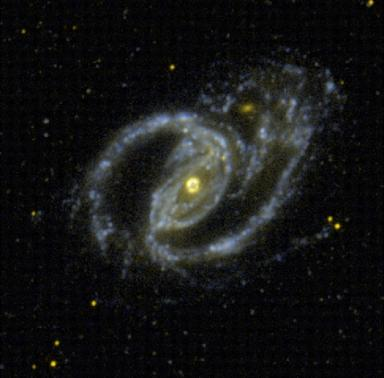 An ultraviolet image of NGC 1097 taken with GALEX. Credit: GALEX/NASA